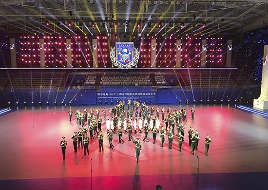 Военные музыканты Восточного военного округа выступили на международном фестивале «Труба мира-2017» в Китае